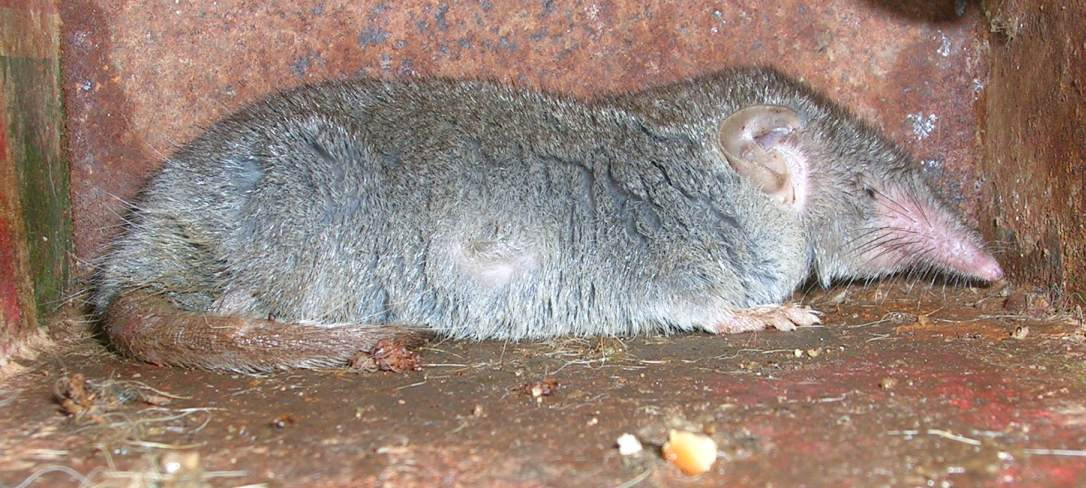 Suncus murinus. Musk Shrew. Photographed in Bangalore.